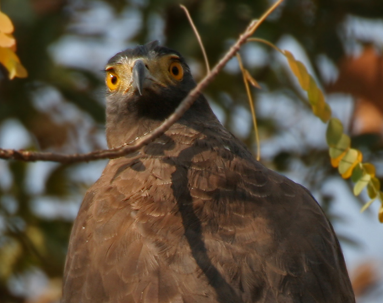 Crested Serpent Eagle Spilornis cheela in Kinnerasani Wildlife Sanctuary, Andhra Pradesh, India.